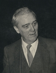 Guy Deniélou